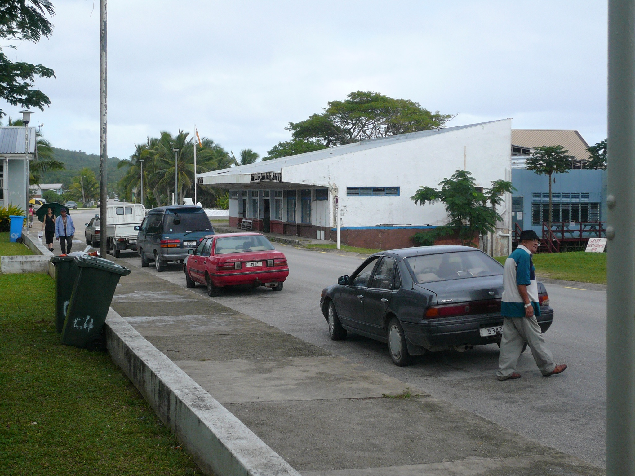 Alofi, capital of Niue